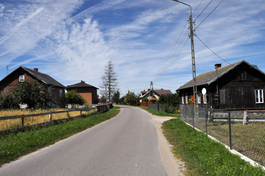 View of the village